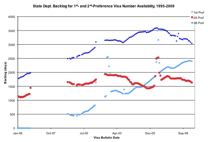 Graph of visa number backlogs for 1st and 2nd preference applications, 1995-2009.